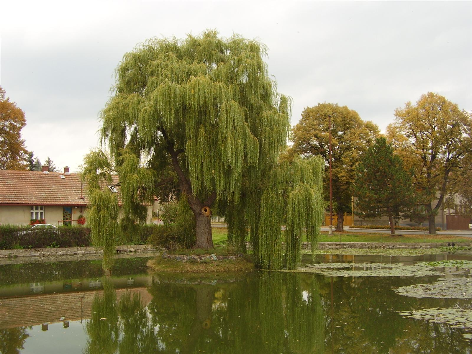 Chýňava near Beroun, Central Bohemian Region